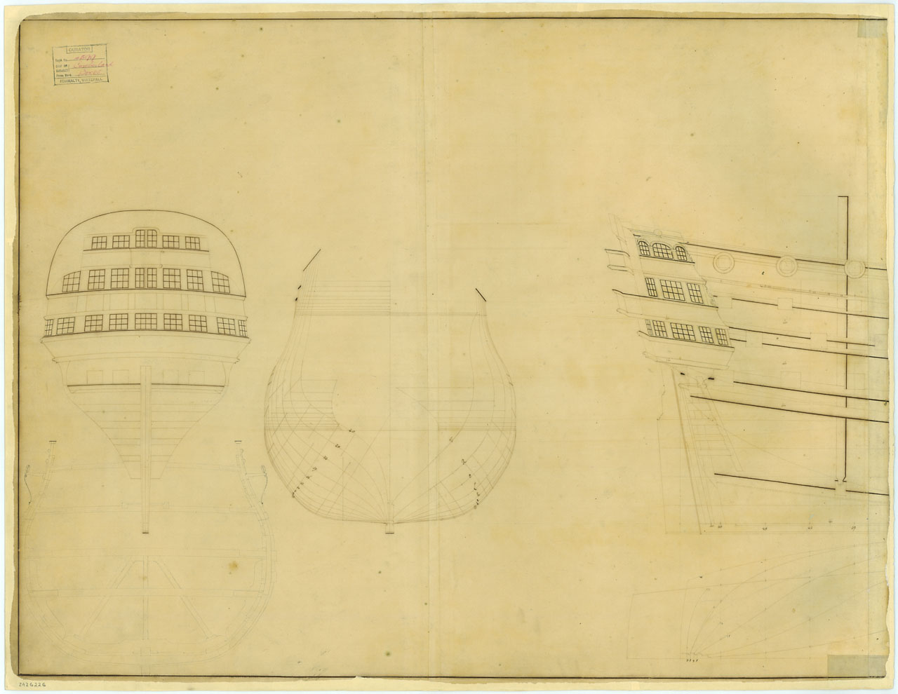 CUMBERLAND 1710 Half of plan showing lines. The other half of this plan is on the reverse of ZAZ6227 and is marked page 4. ZAZ6224 to ZAZ6232 form a book.